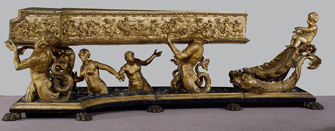 Italian (Roman); Harpsichord; Chordophone-Zither-plucked-harpsichord